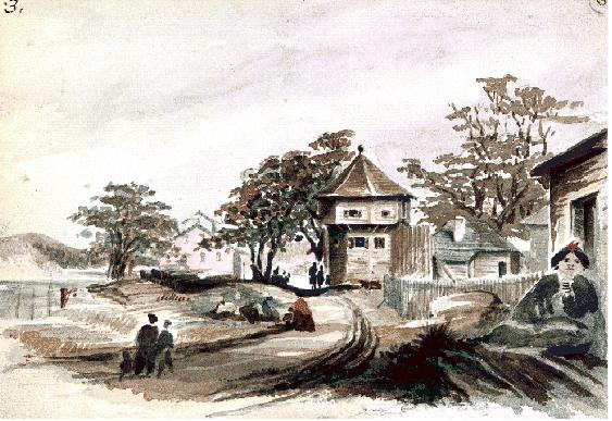 A watercolour of the South West bastion of Fort Victoria, painted by Sarah Crease, 1860. [1] found at BC Archives Title: S.W. BASTION OF THE FORT WITH 12 NINE-POUND GUNS - NO. 3 Photographer/Artist: Crease, Sarah (1826-1922) Date: 8 Sep 1860